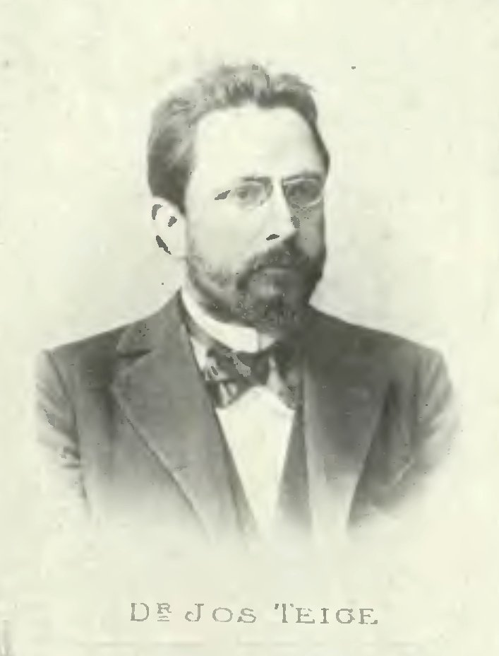 Portrait of Josef Teige (1862-1921), Czech archivist and historian.